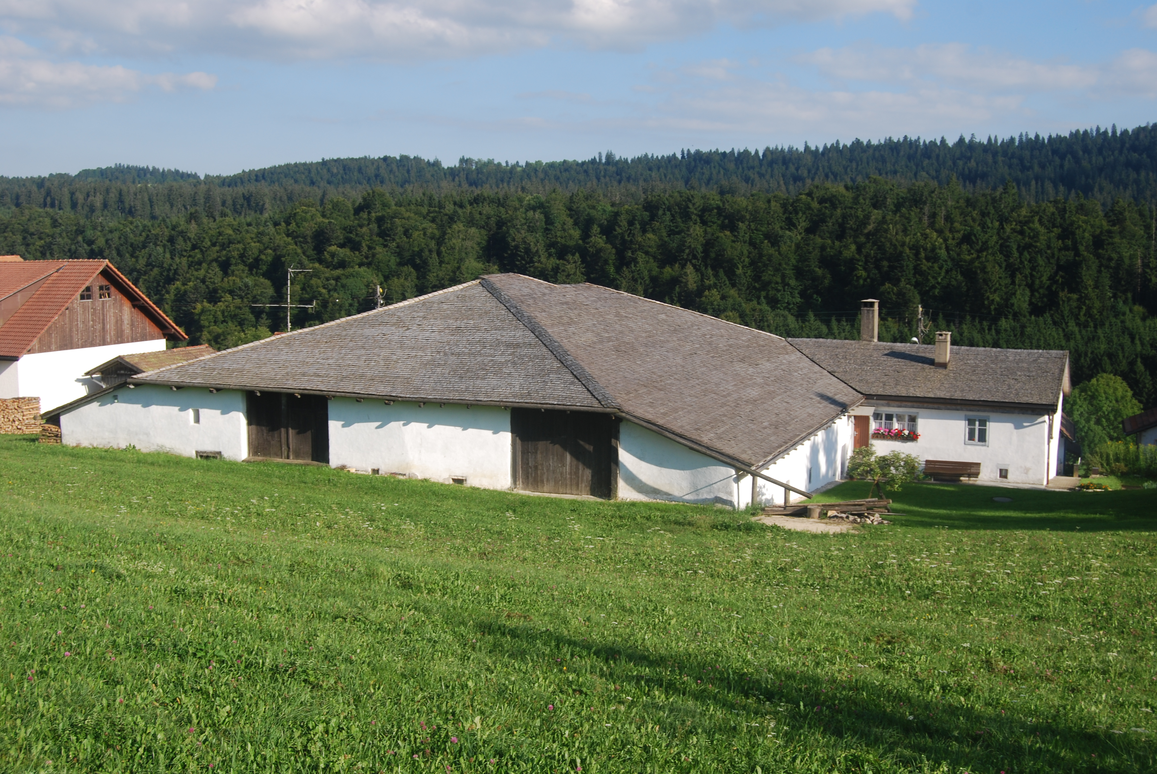 Jurassic Rural Museum at Les Genevez, canton of Jura, SwitzerlandEsperanto: Ĵurasa Kamparana Muzeo en Les Genevez, Kantono Ĵuraso, Svislando